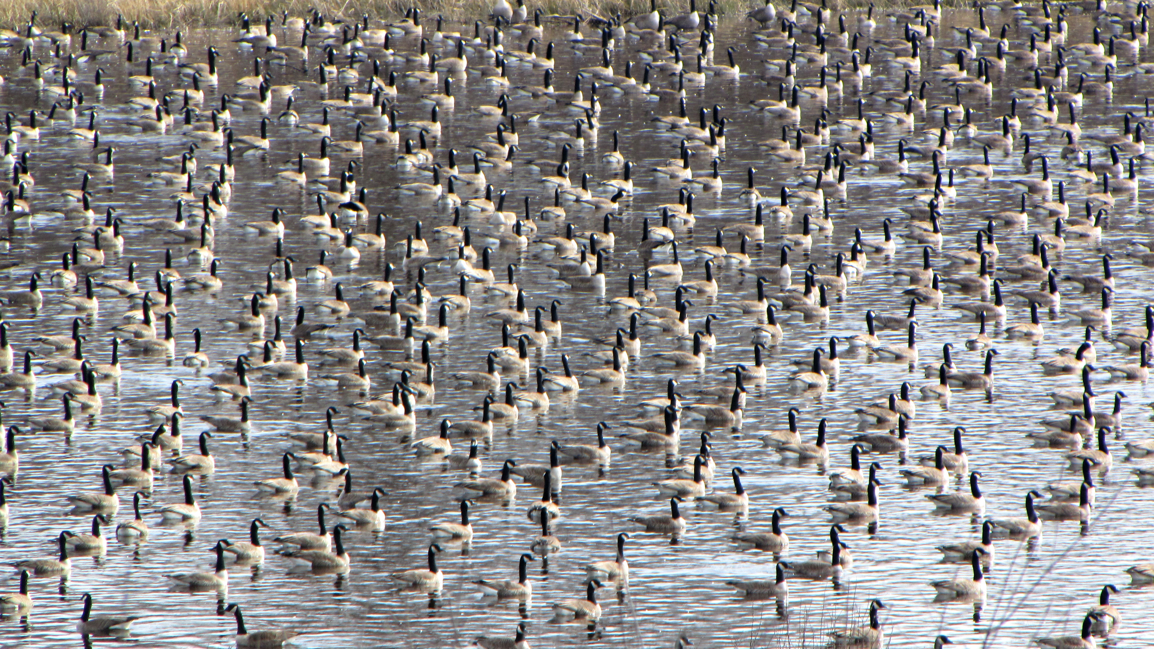 Canada Geese (Branta canadensis), on pond in Mer Bleue Conservation Area, Ottawa, Ontario